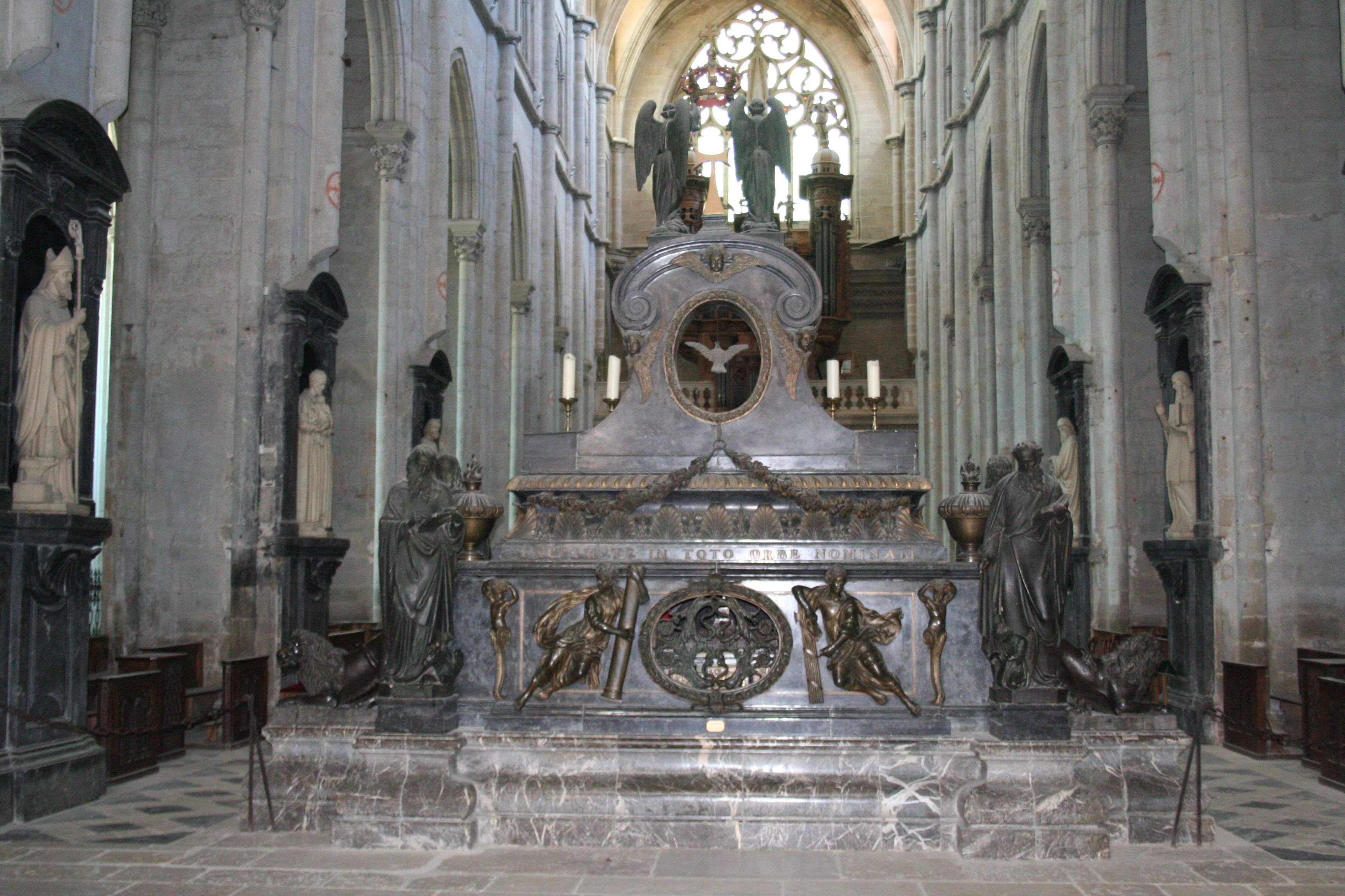 Church of Saint-Antoine-l'Abbaye